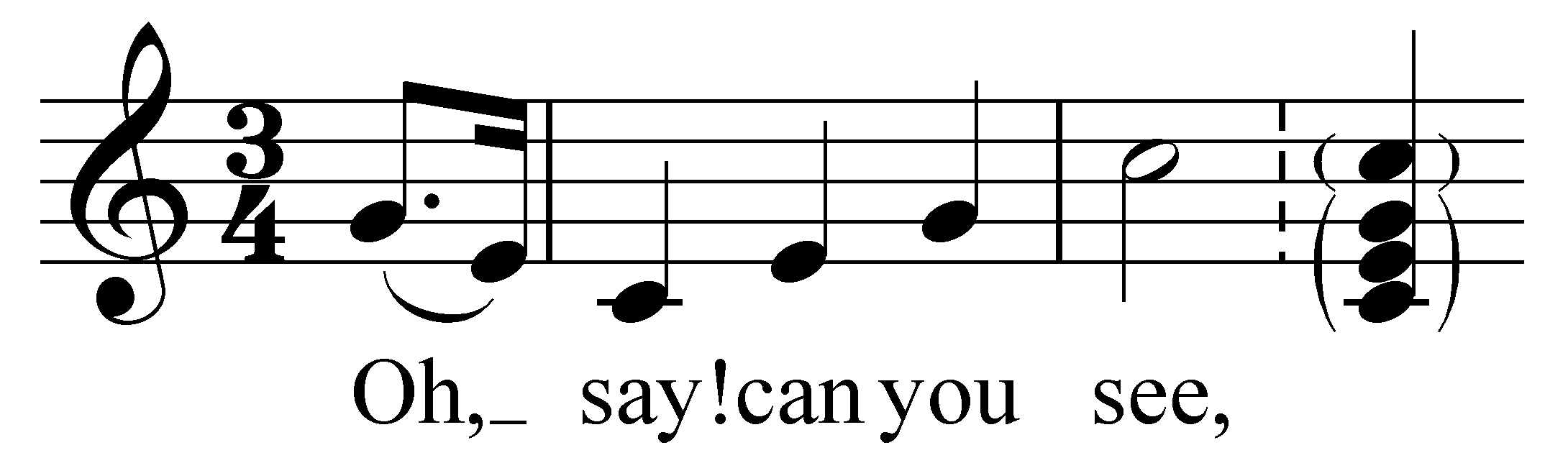 The Star-Spangled Banner opens with an arpeggio on a C major tonic chord.